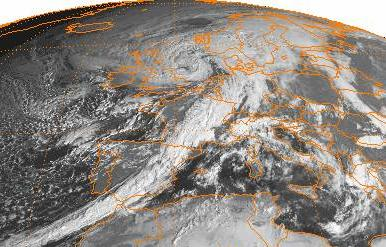 Satellite picture of the 1987 European Wind Storm.